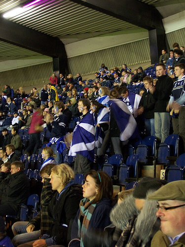 Prise le 18 septembre 2007 Rugby World Cup 2007 - Scotland v Romania (177)